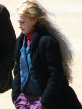 Evanna Lynch filming for Harry Potter and the Deathly Hallows at Freshwater West, Pembrokeshire in May 2009.